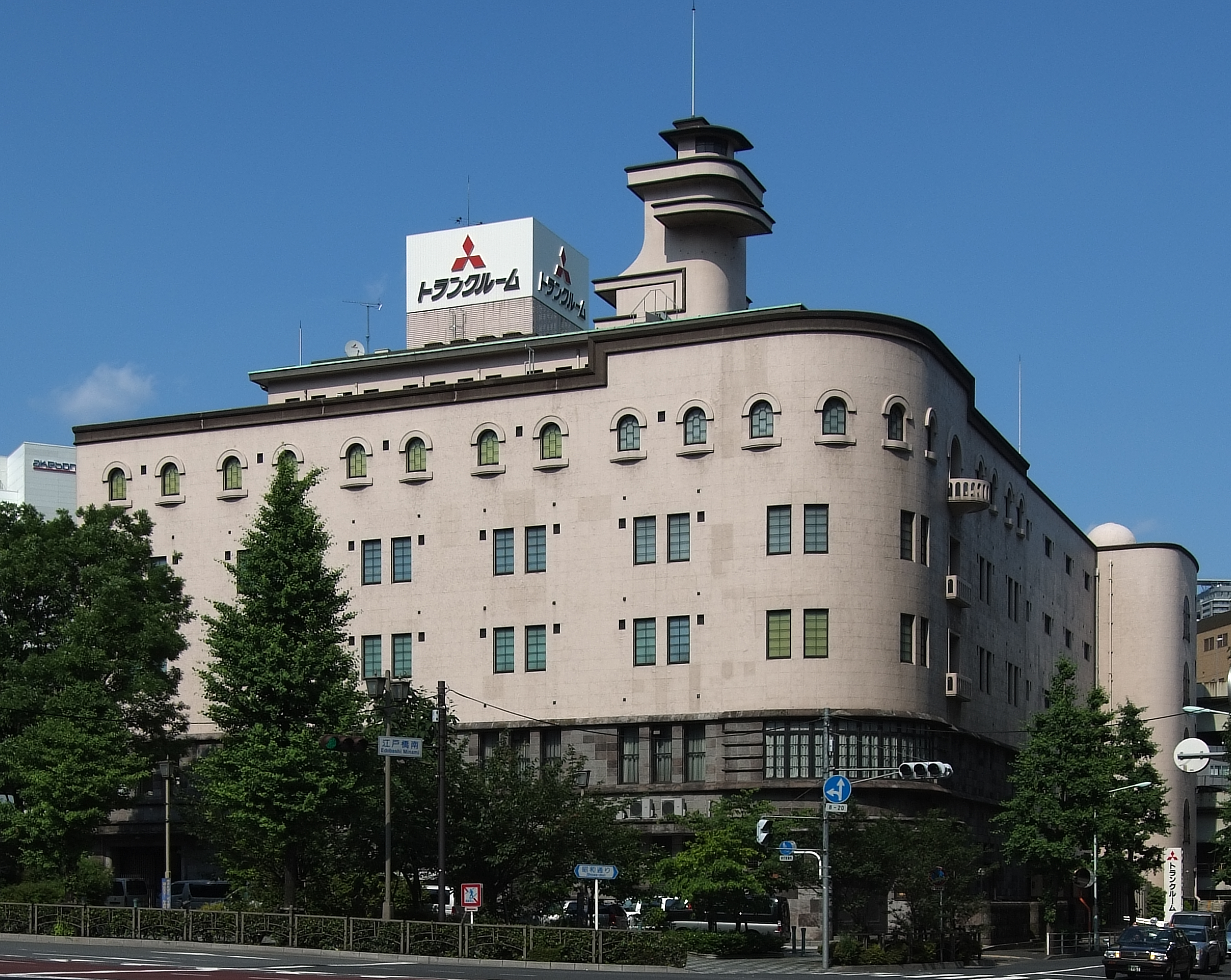 Mitsubishi Logistics Head Office, at Chuo-ku Tokyo Japan.